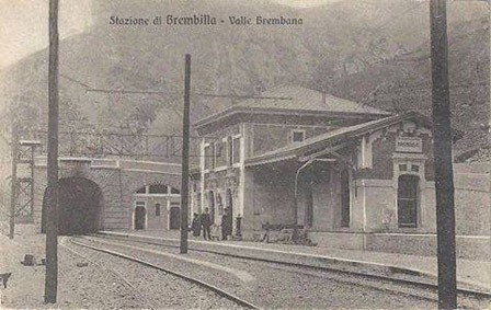 Brembilla-Grotte railway station